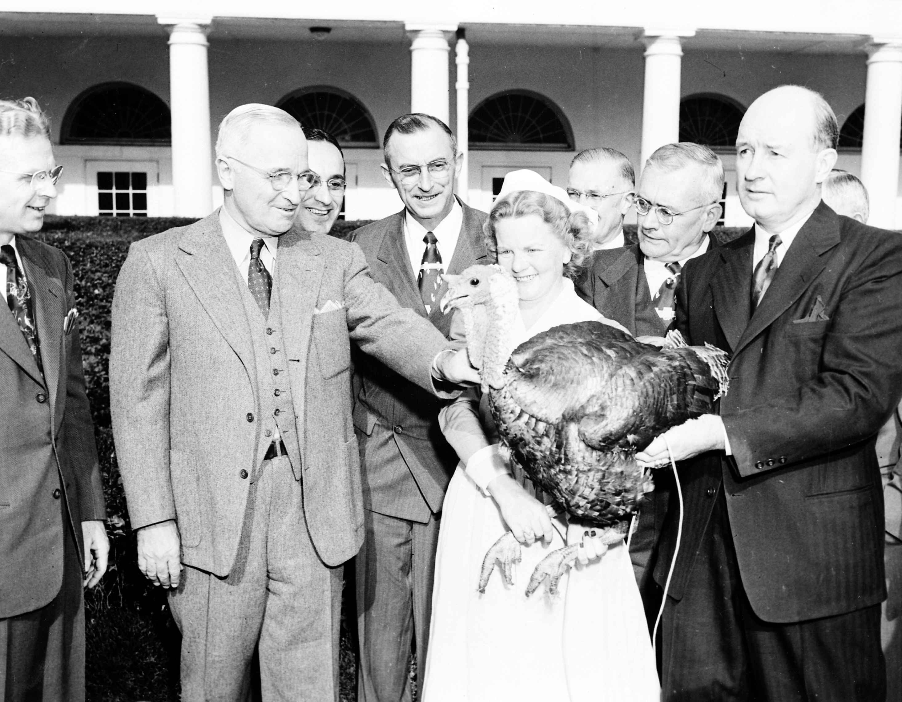 Photograph of President Truman receiving a Thanksgiving turkey from members of the Poultry and Egg National Board and other representatives of the turkey industry, outside the White House.